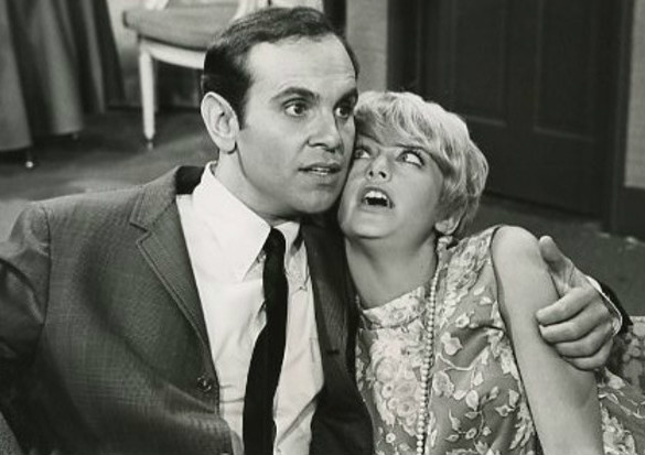 Publicity photo of Ronnie Schell and Goldie Hawn from Good Morning, World, 1967.